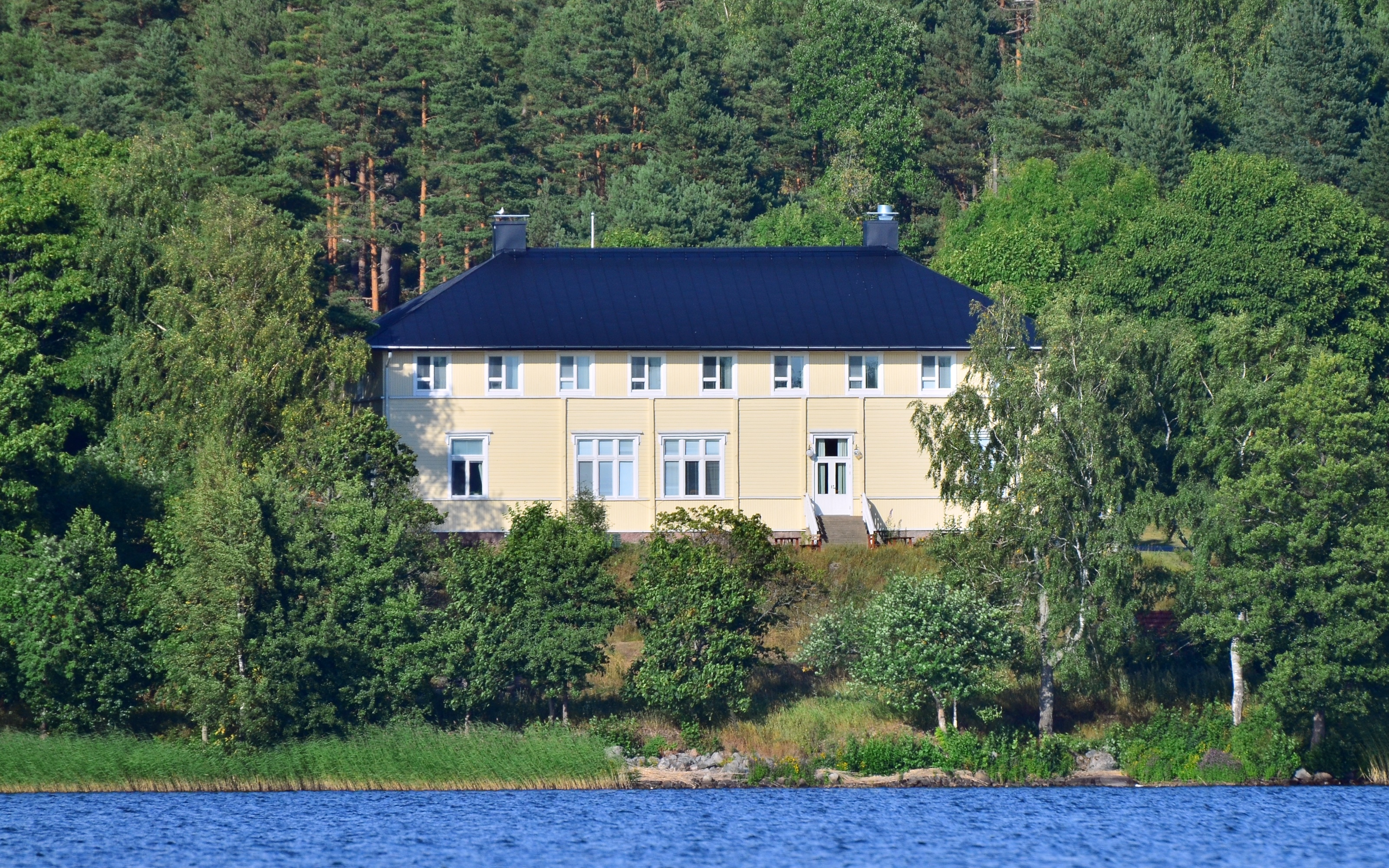 Labbnäs mansion in Dragsfjärd, Finland.